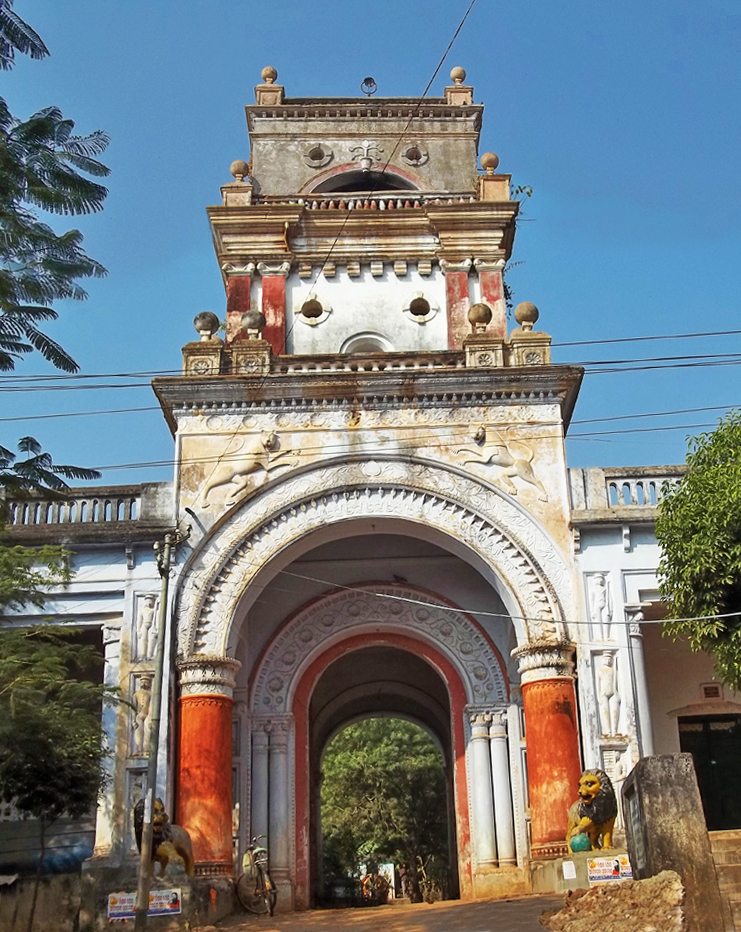 This media file is uploaded with Odia loves Wikipedia